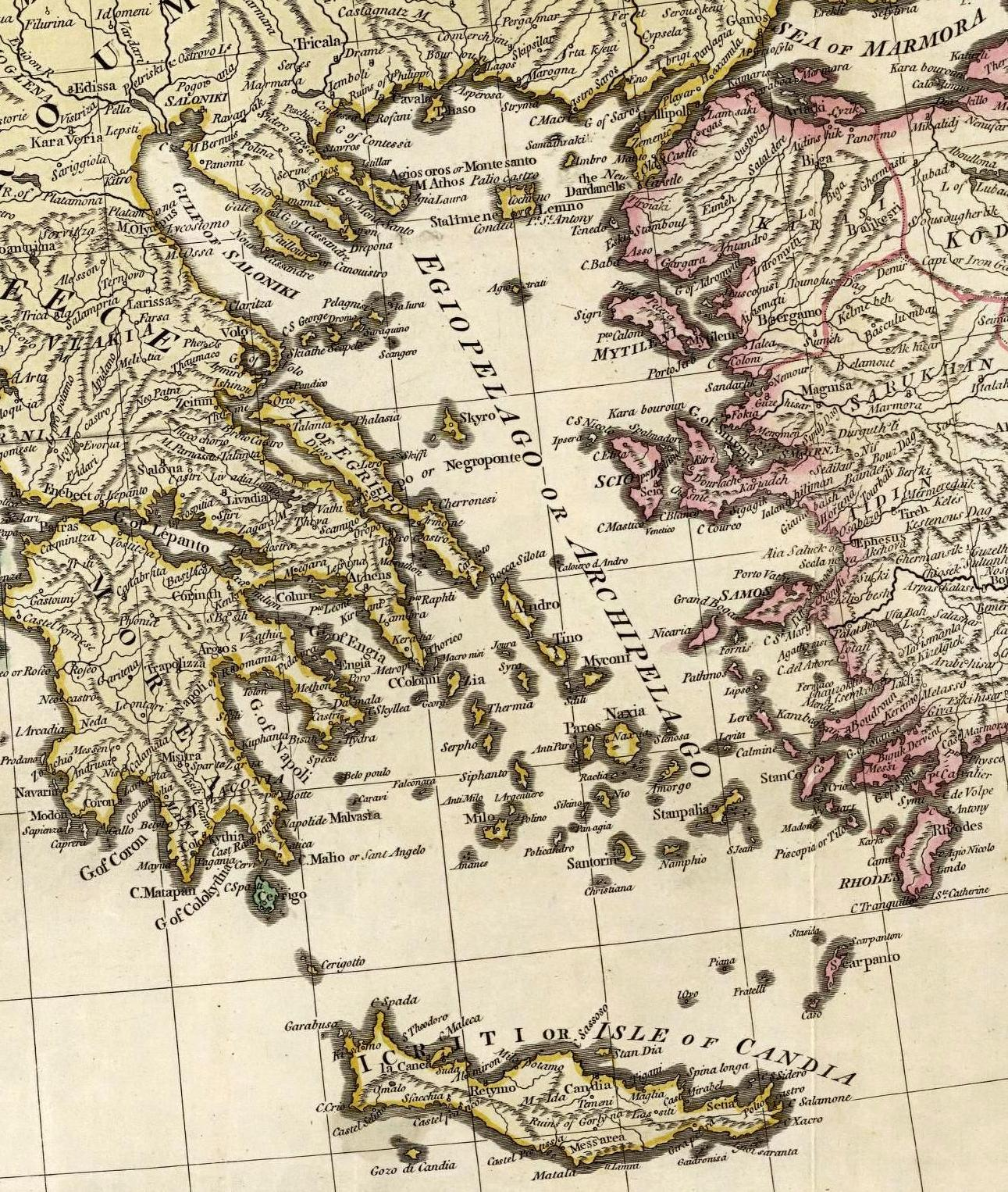 (Composite of) A map of the Mediterranean Sea with the adjacent regions and seas in Europe, Asia and Africa. By William Faden, Geographer to the King. London, printed for Wm. Faden, Charing Cross, March 1st, 1785.